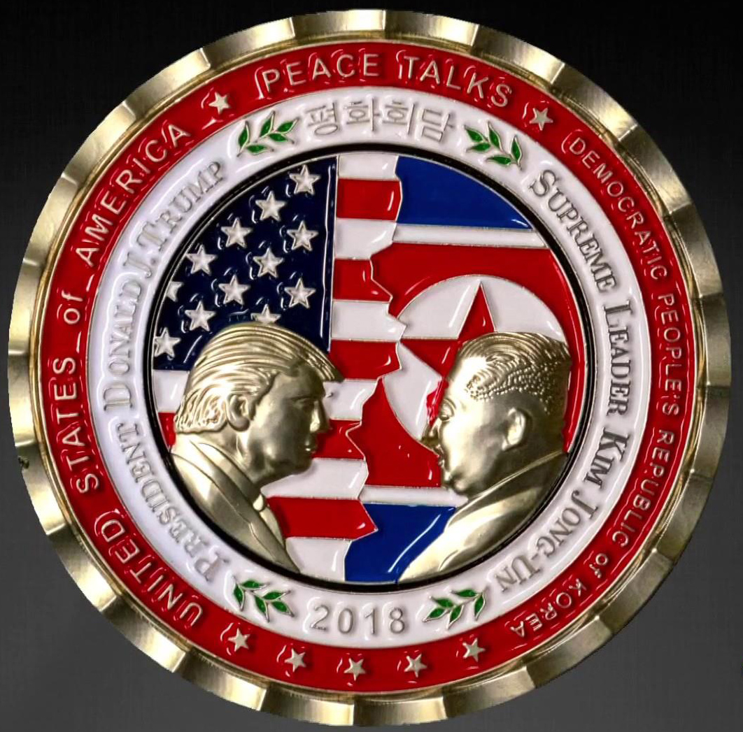 Commemorative medallion for the 2018 North Korea–United States summit issued by the White House Communications Agency.